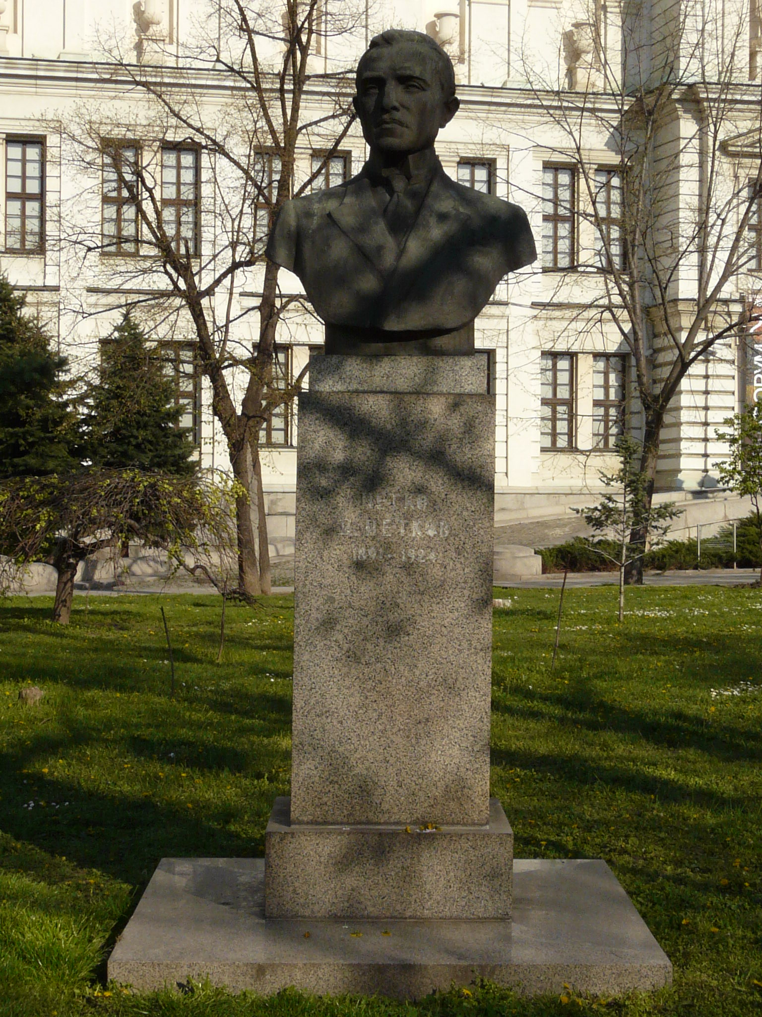 Monument of Petko Petkov in Sofia